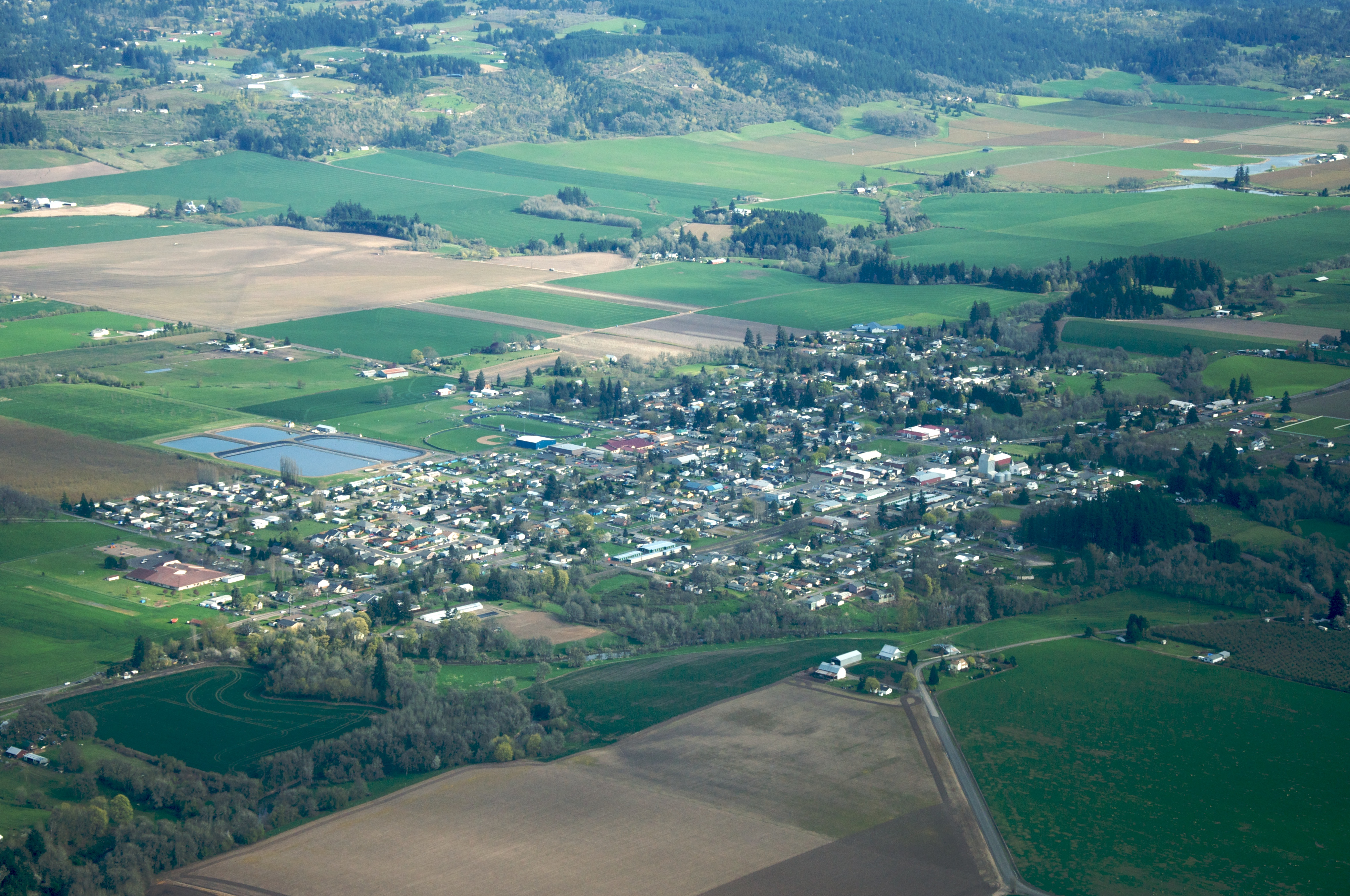 Aerial photograph of Amity, Oregon